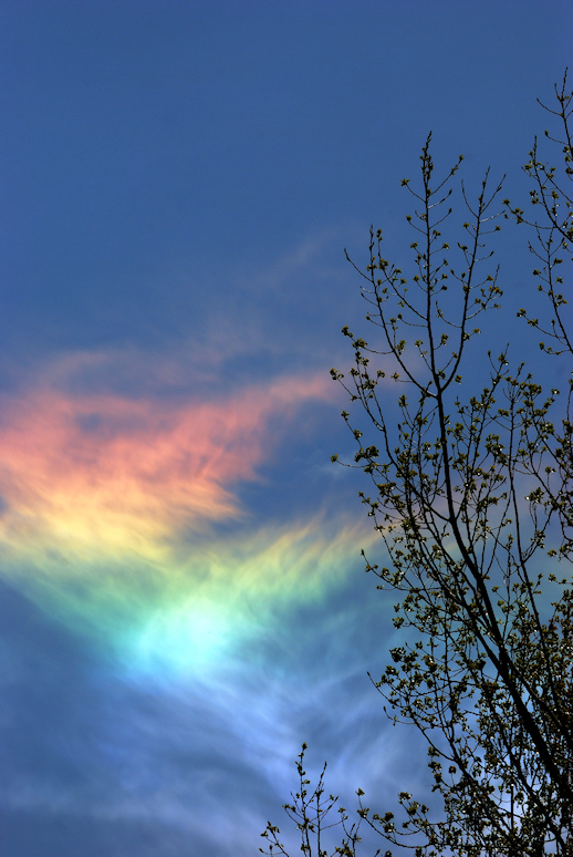 Circumhorizontal arc / circumhorizon arc (CHA) /fire rainbow @ Ravenna, Michigan